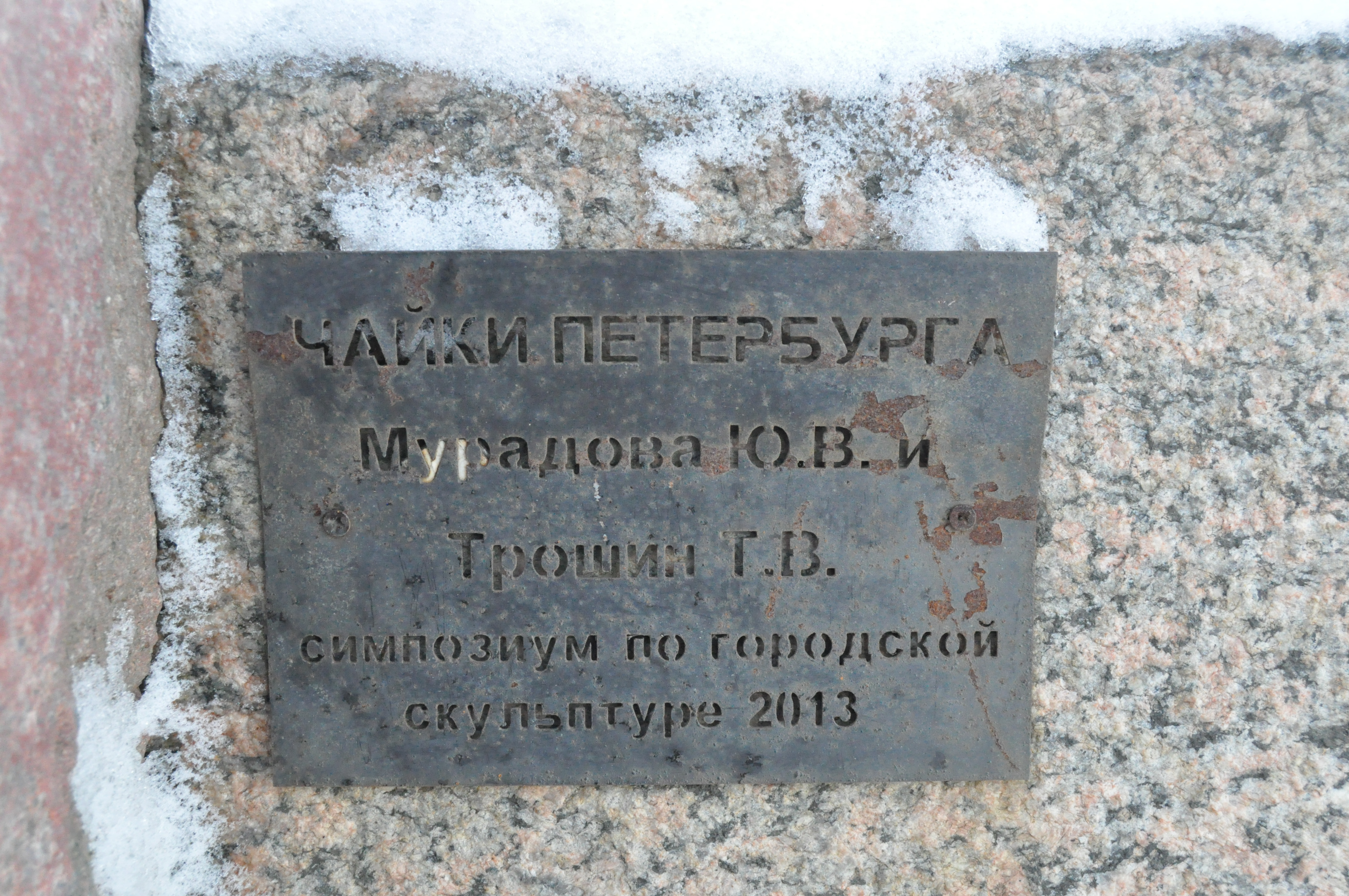 Gulls of Petersburg sculpture